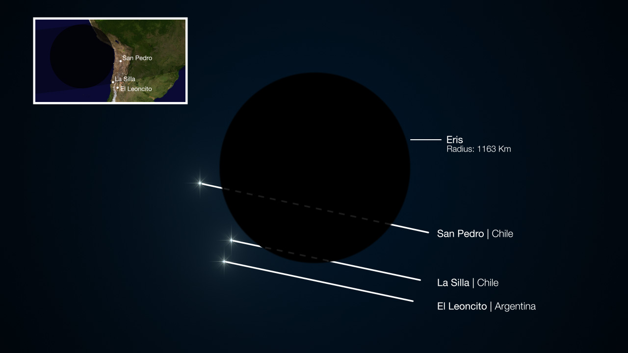 This diagram shows the path of a faint star during the occultation of the dwarf planet Eris in November 2010. Two sites in South America saw the faint star briefly disappear as its light was blocked by Eris and another recorded no change in brightness. Studies of where the event was seen, and for how long, have allowed astronomers to measure the size of Eris accurately for the first time. Surprisingly, they find it to be almost exactly the same size as Pluto and that it has a very reflective surface.